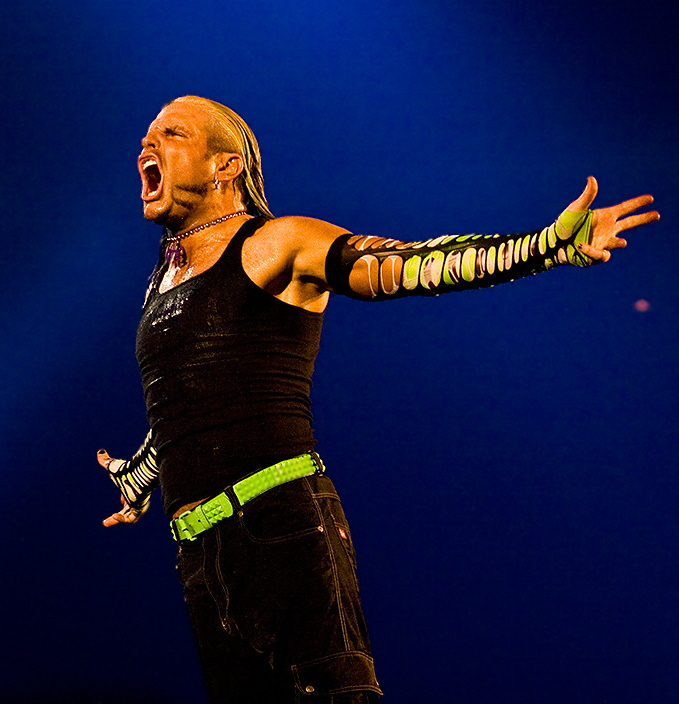 Jeff Hardy at a SmackDown taping in November 2008